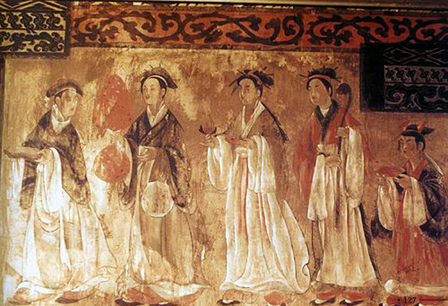 The Dahuting Tomb (Chinese: 打虎亭汉墓, Pinyin: Dahuting Han mu; Wade-Giles: Tahut'ing Han mu) of the late Eastern Han Dynasty (25-220 AD), located in Zhengzhou, Henan province, China, was excavated in 1960-1961 and contains vault-arched burial chambers decorated with murals showing scenes of daily life. For further information, see the Baidu article (in Chinese): 打虎亭汉墓. Click here for more pictures and a step-by-step walkthrough of the tomb, from the outside, down a stairwell, and through the vaulted burial chambers.